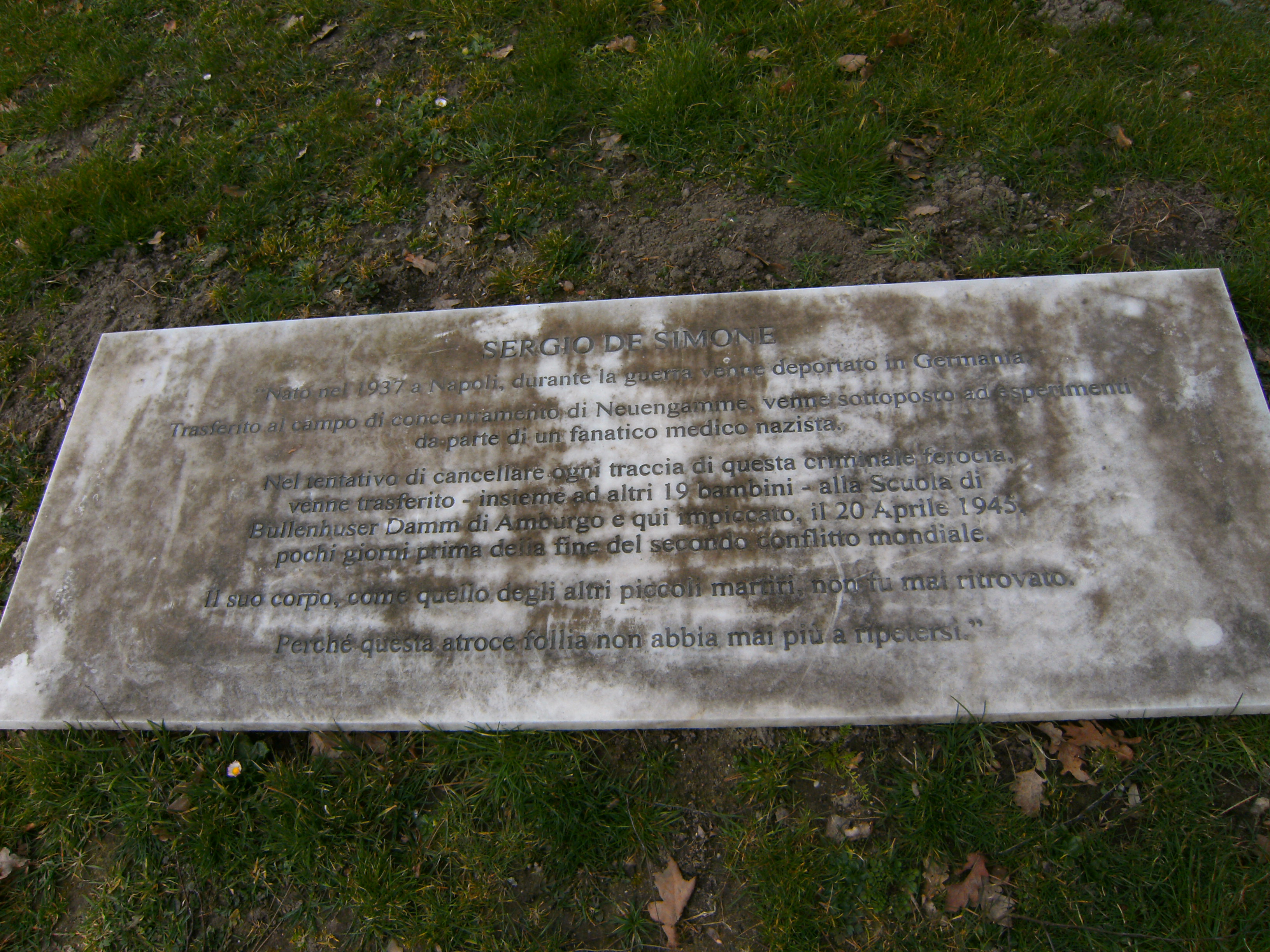 Memorial stone at the Italian war graves cemetery Hamburg-Öjendorf to remember Sergio de Simone and the other 19 murdered children of Bullenhuser Damm.